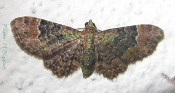 Chloroclystis latifasciata moth, (de Joannis, 1932) Larentiinae Picture taken in Réunion